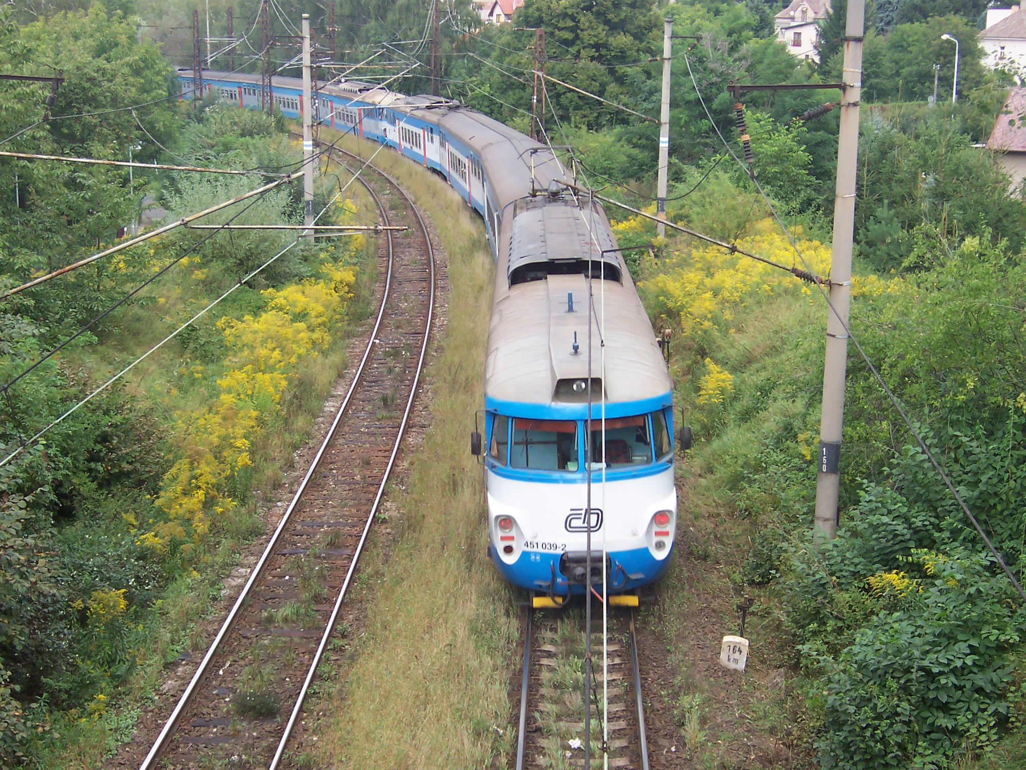 Czech electrical multiple unit 451 approaching Říčany station on its way from Benešov to Prague.